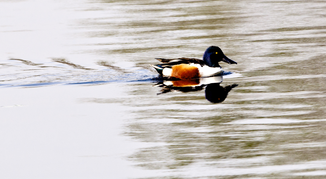 Northern Shoveler ( Anas clypeata) is a regular winter visitor to most of India. They come from their breeding ground sin China and Russia by flying over the Himalayas. More than the bird, the wake it formed after it in the water is what attracted my attention. Bird photographed in the Yamuna at Okhla.